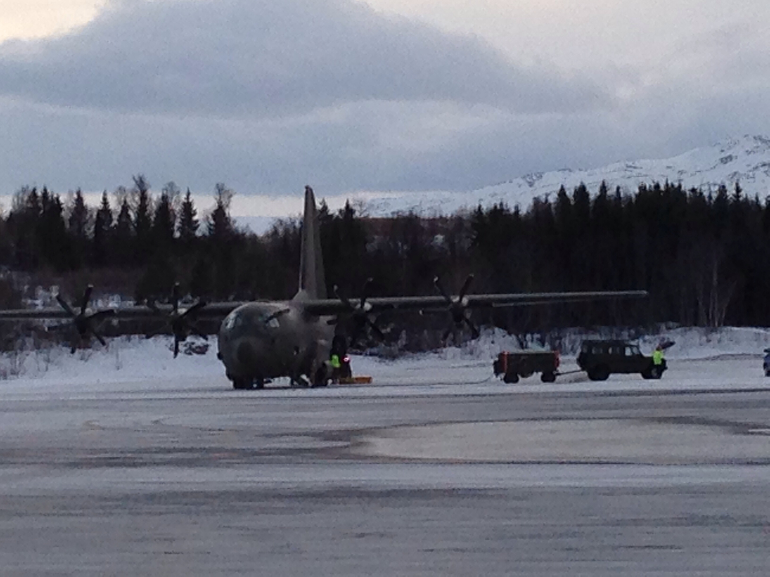 Hercules Military Aircraft